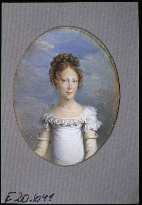 Portrait of Archduchess Maria Anna of Austria (1804–1858)